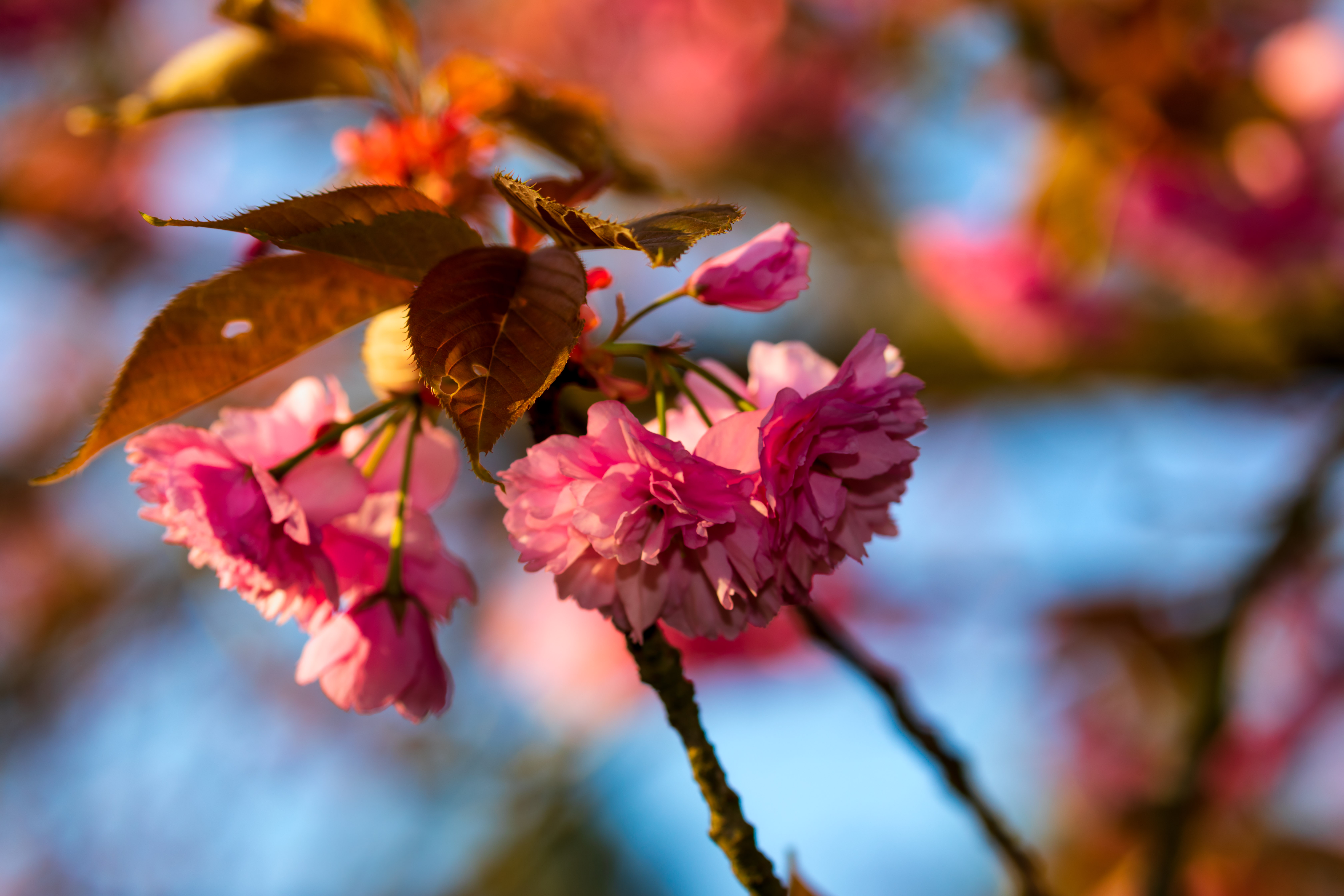 Cherry blossoms in full bloom on a tree in the Parc de Sceaux in Paris.